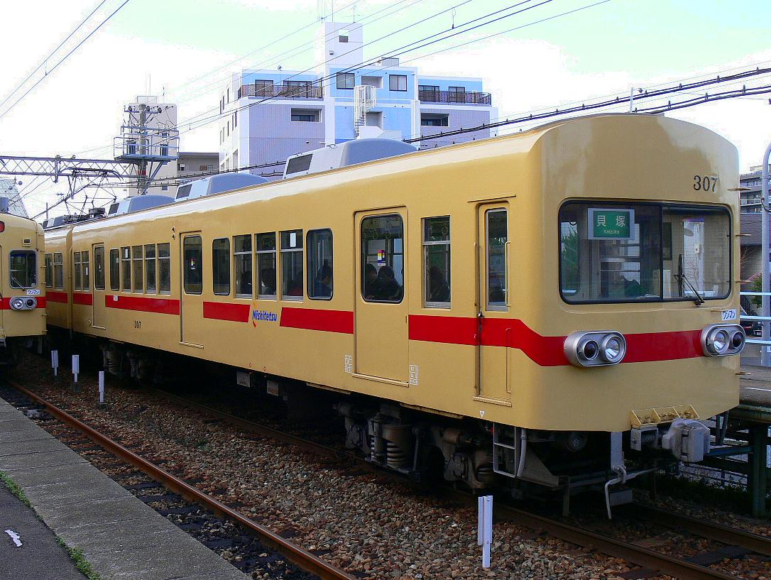 Nishi-Nippon-Railroad Type 307 Train (Japan). It takes a picture from the platform with Mitoma-Station in the Nishitetu-Kaiduka line. 西鉄300形電車（307編成）の貝塚行き列車。 西鉄貝塚線の三苫駅にて、ホームより撮影。